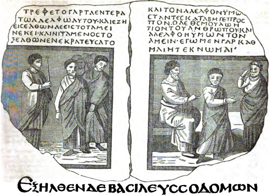 An engraved copy of two pages of the Codex Cotton Genesis: "Joseph with his brethren" illustration to Genesis 43:30-31